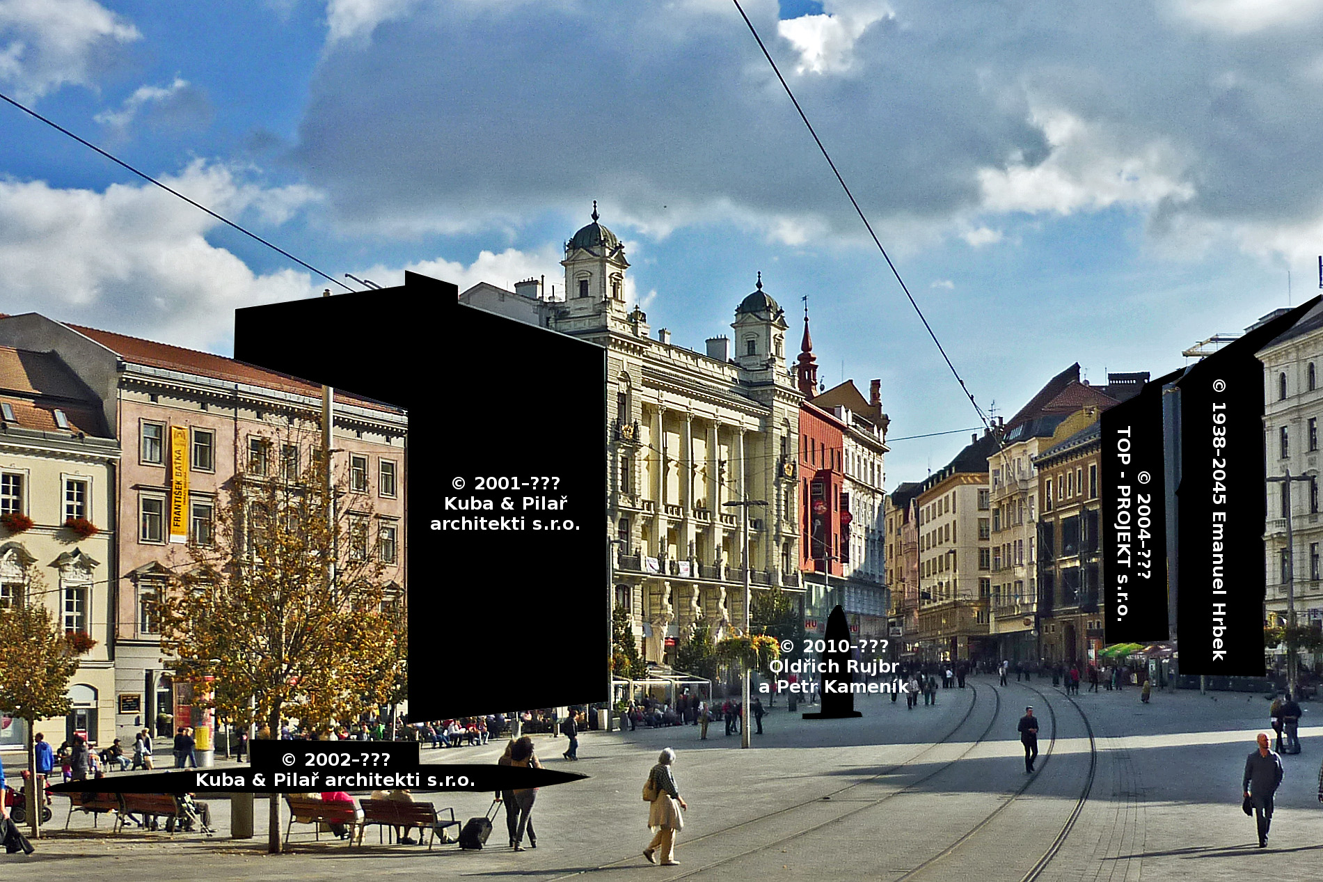 What Liberty Square (Czech: Náměstí Svobody) in Brno (Czech Republic) would look like on photographs if freedom of panorama was revoked in the Czech Republic. See Commons:Freedom of Panorama 2015 for more information. Note: Names of the architects have been acquired from publicly available sources and copyright protection terms have been derived based on current legislature (which the freedom of panorama is an exception of) from the determined death date, or the looked up creation year of either the project or the building. Precision of the data is not guaranteed.